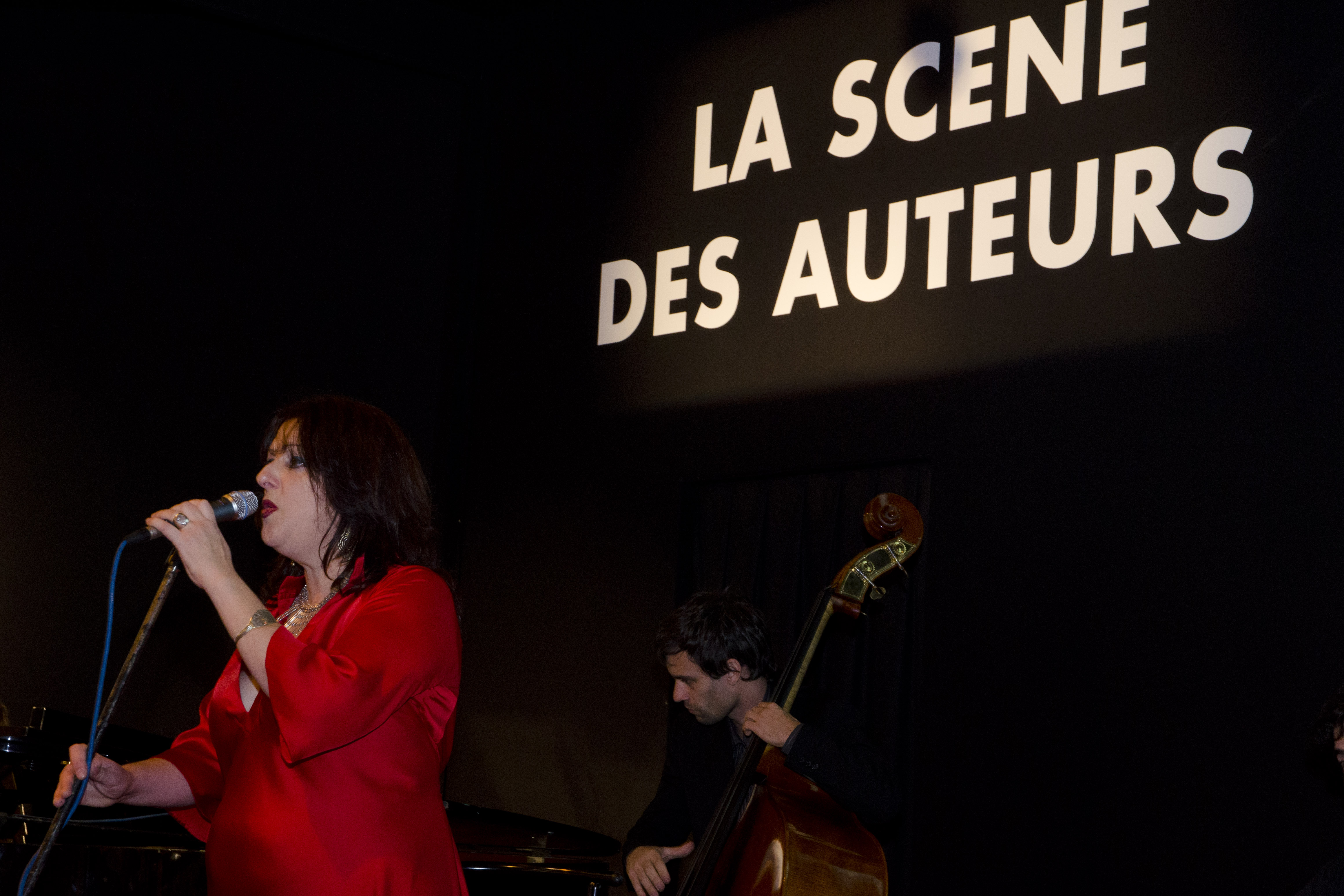 Paris, France. March 19, 2014 - Tribute to Atahualpa Yupanqui by Lidia Borda at the Paris Book Fair. Photos: Augusto Starita / Culture Secretariat of the Presidency of the Nation.